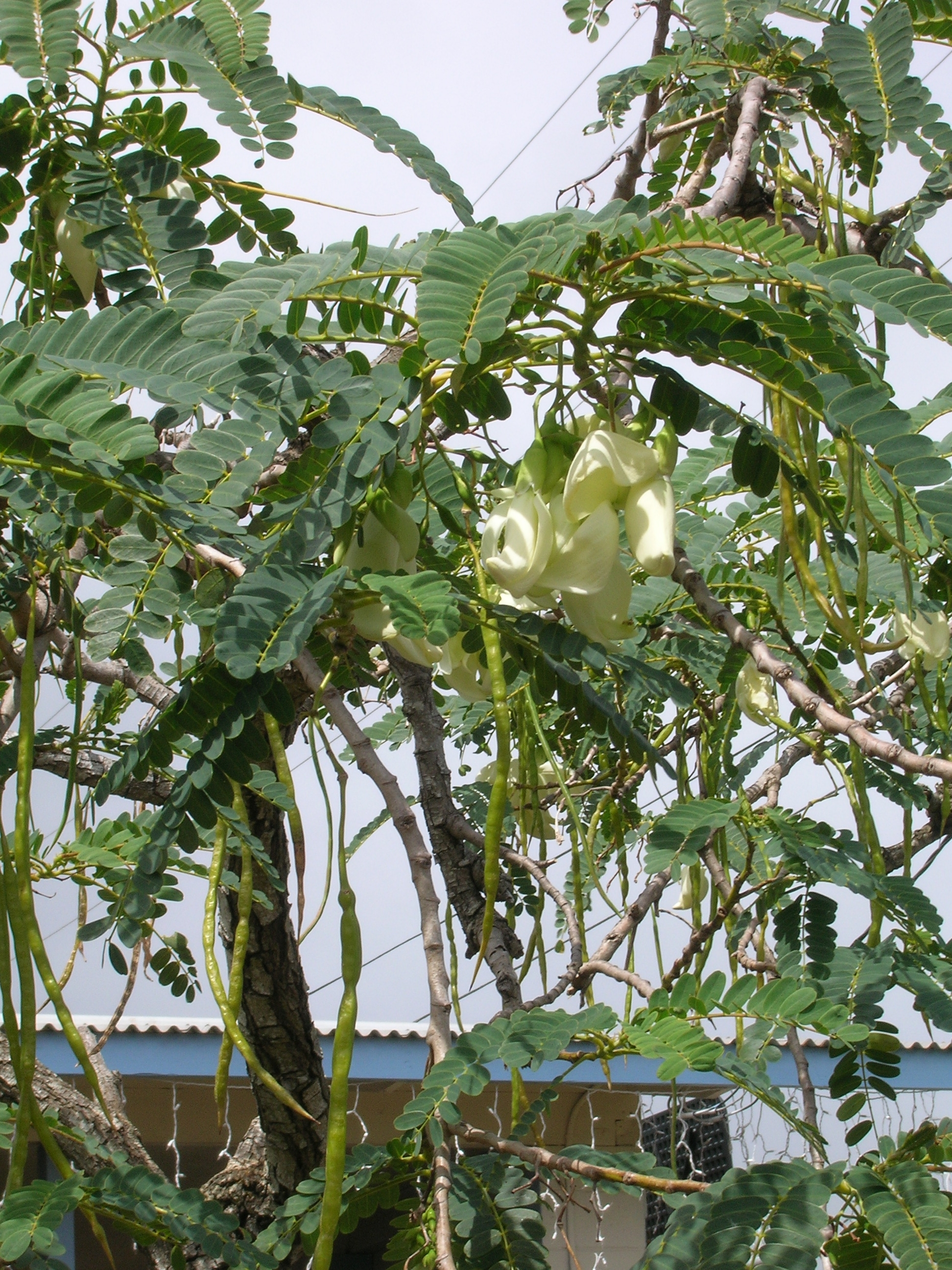 Sesbania grandiflora (habit). Location: Molokai, Hoolehua